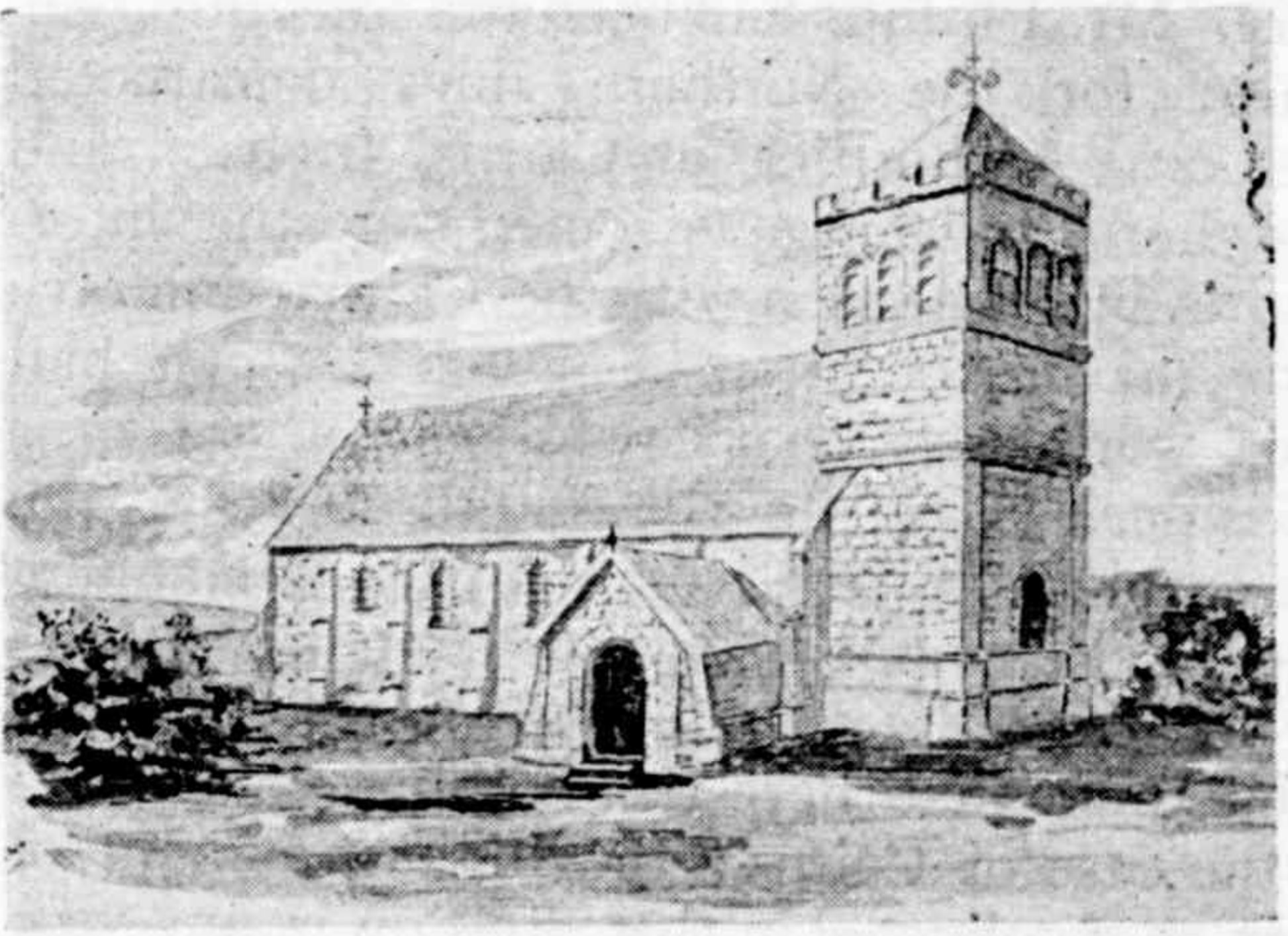 Sketch of Memorial Church in Mundoolan, 1900